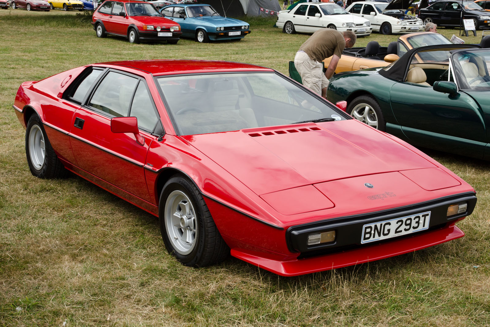 Bodelwyddan Classic Car Show 21/07/2013